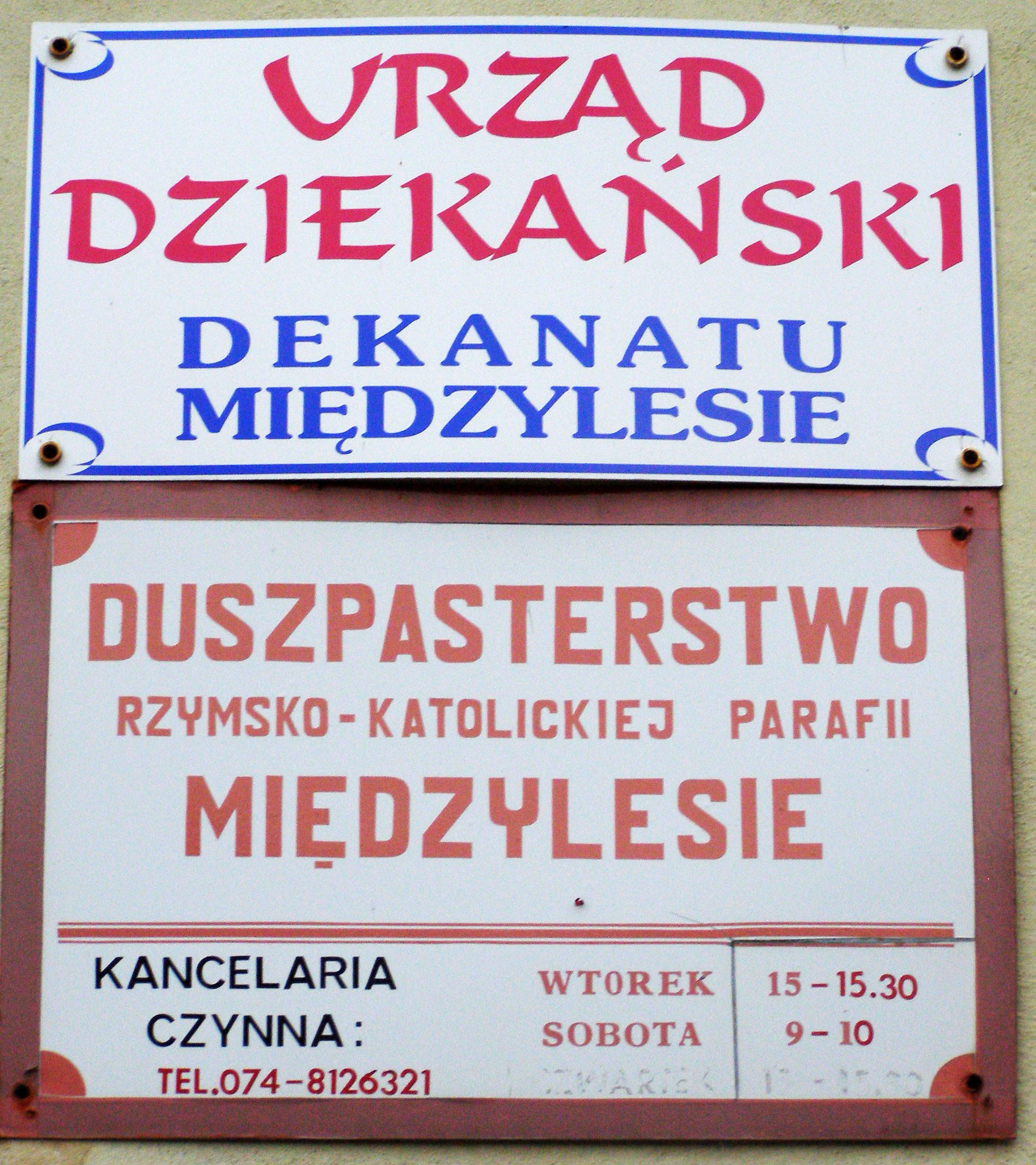 Międzylesie, an information about Dekanat Międzylesie